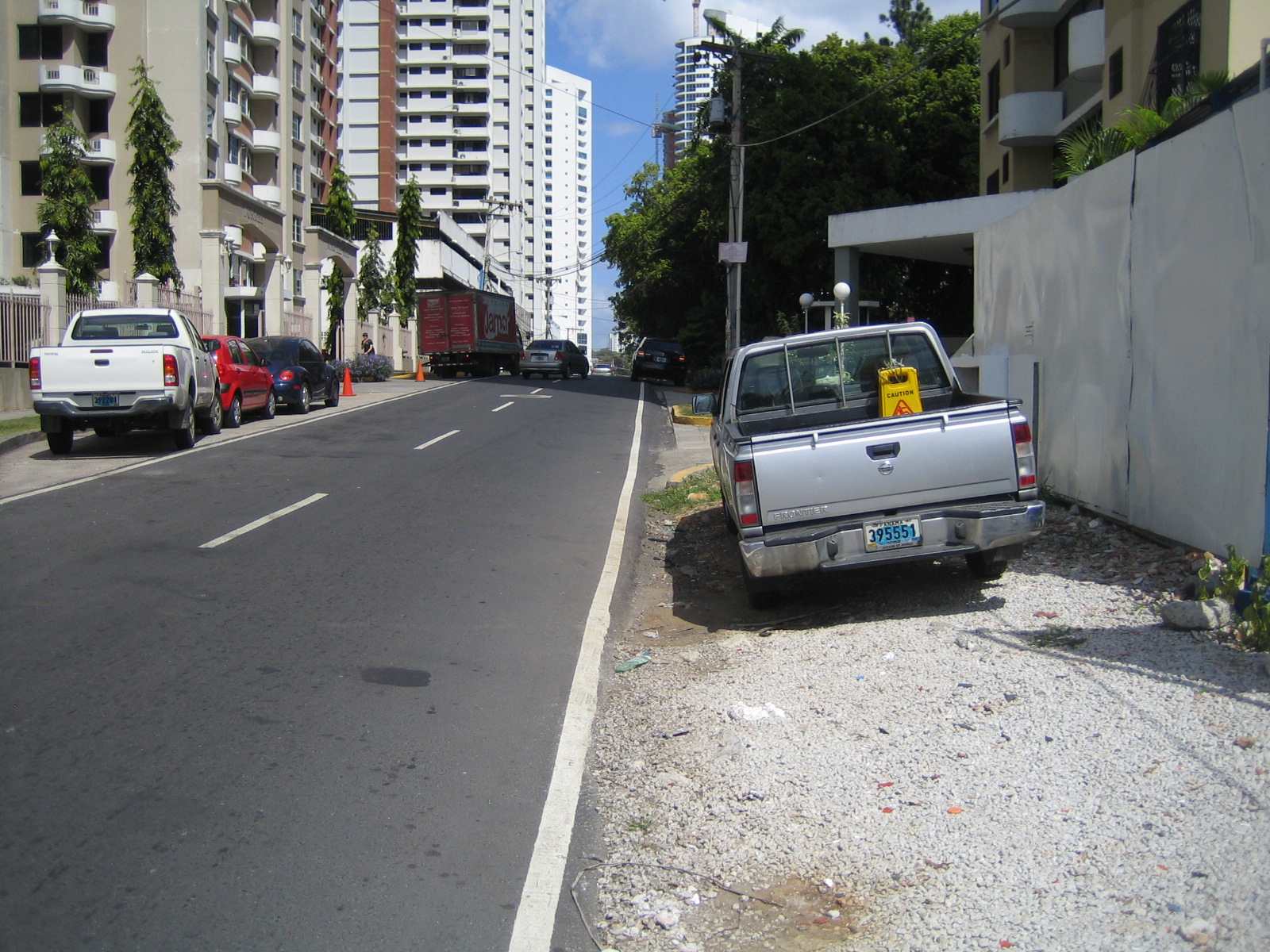 Sidewalk in Panamá City